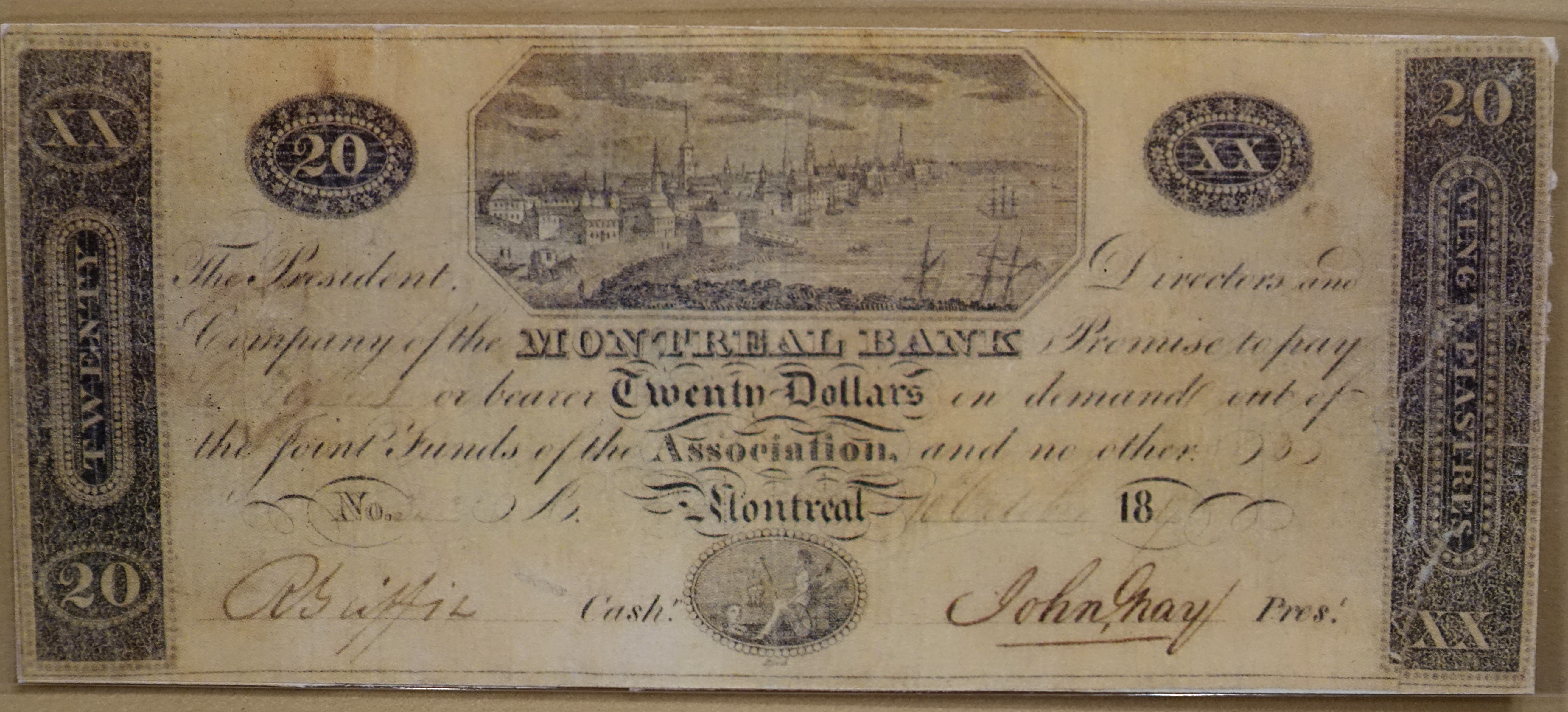 Exhibit in the Bank of Montréal Museum - Bank of Montreal, Main Montreal Branch - 119, rue Saint-Jacques, Montreal, Quebec, Canada.